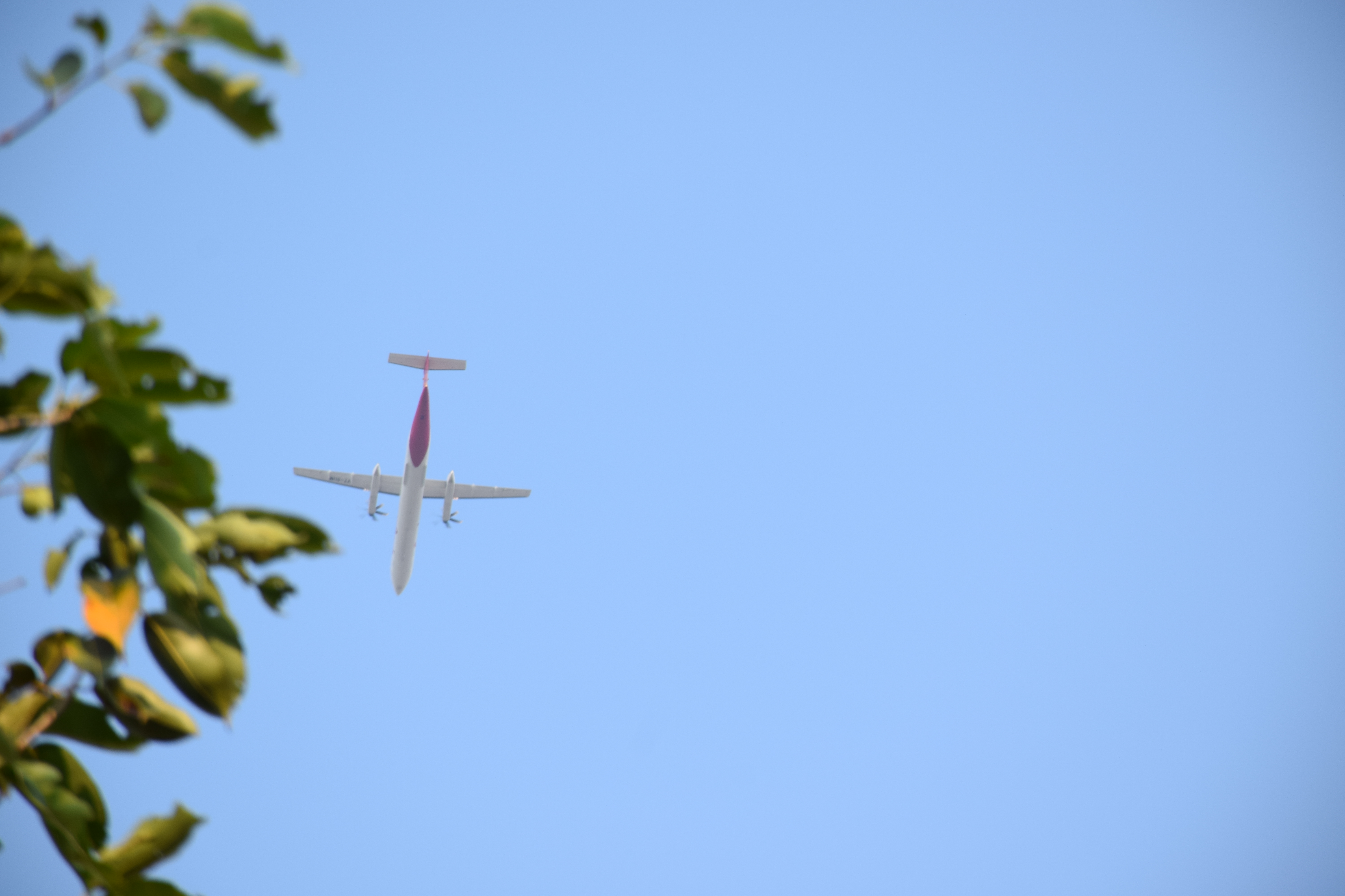 plane flying off at gannavaram airport